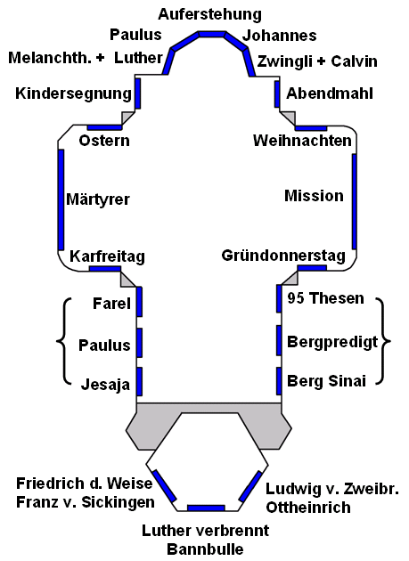 Gedächtniskirche (Memorial Church) in Speyer, Germany